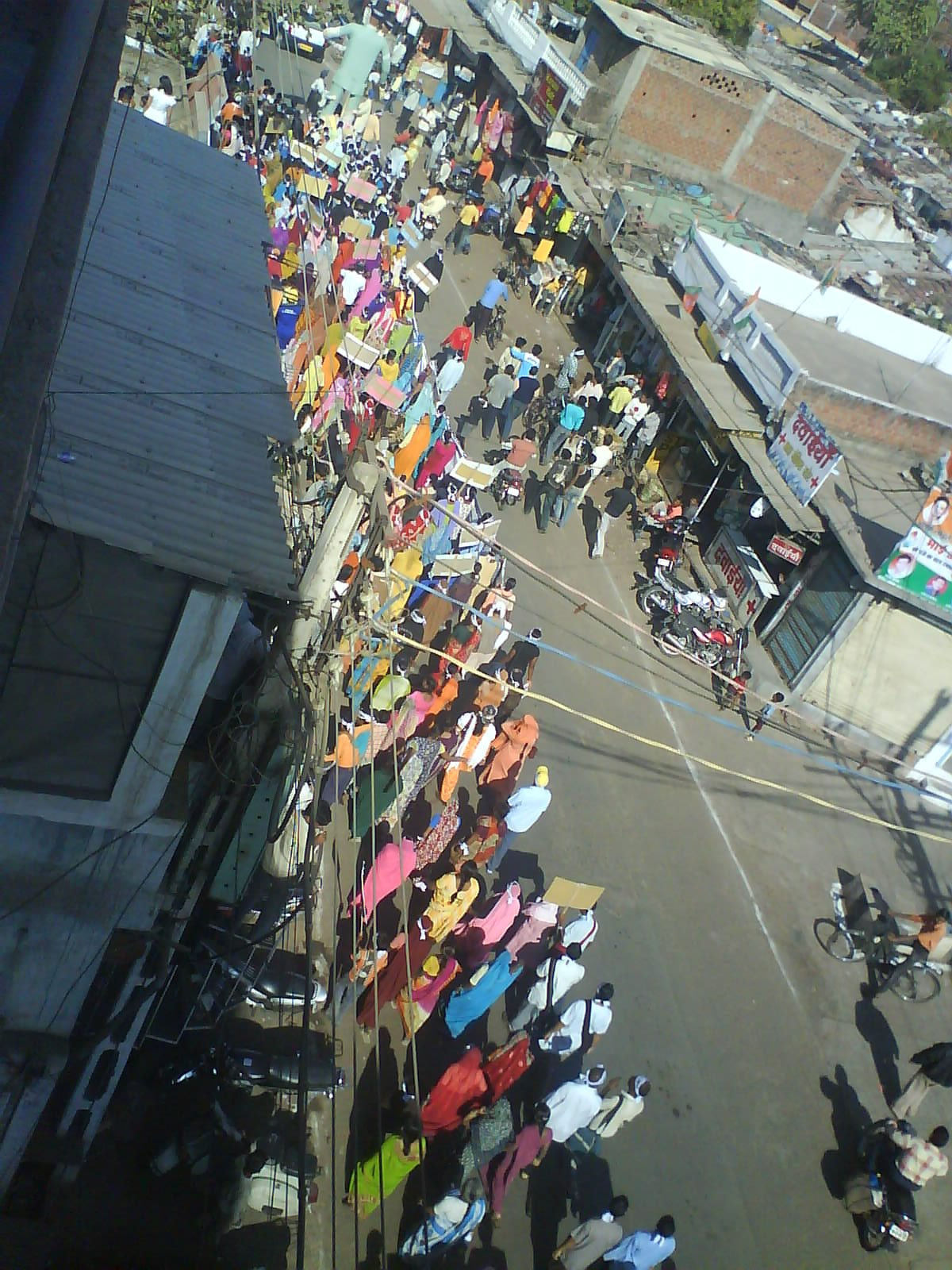 A protest rally against DOW, in Bhopal. An effigy of Anderson can be seen at the start of the rally. Photo taken from a building on Chola Road.